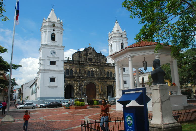 Plaza de la independencia, Casco Viejo, Panama City